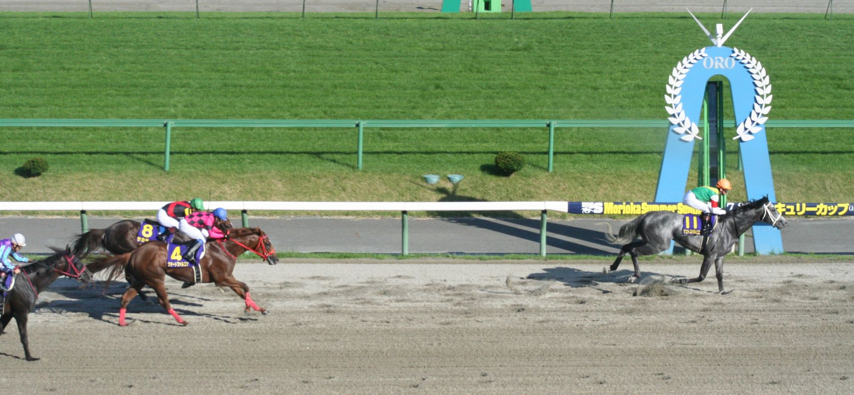 The 13th Mercury Cup (Morioka Racecourse)